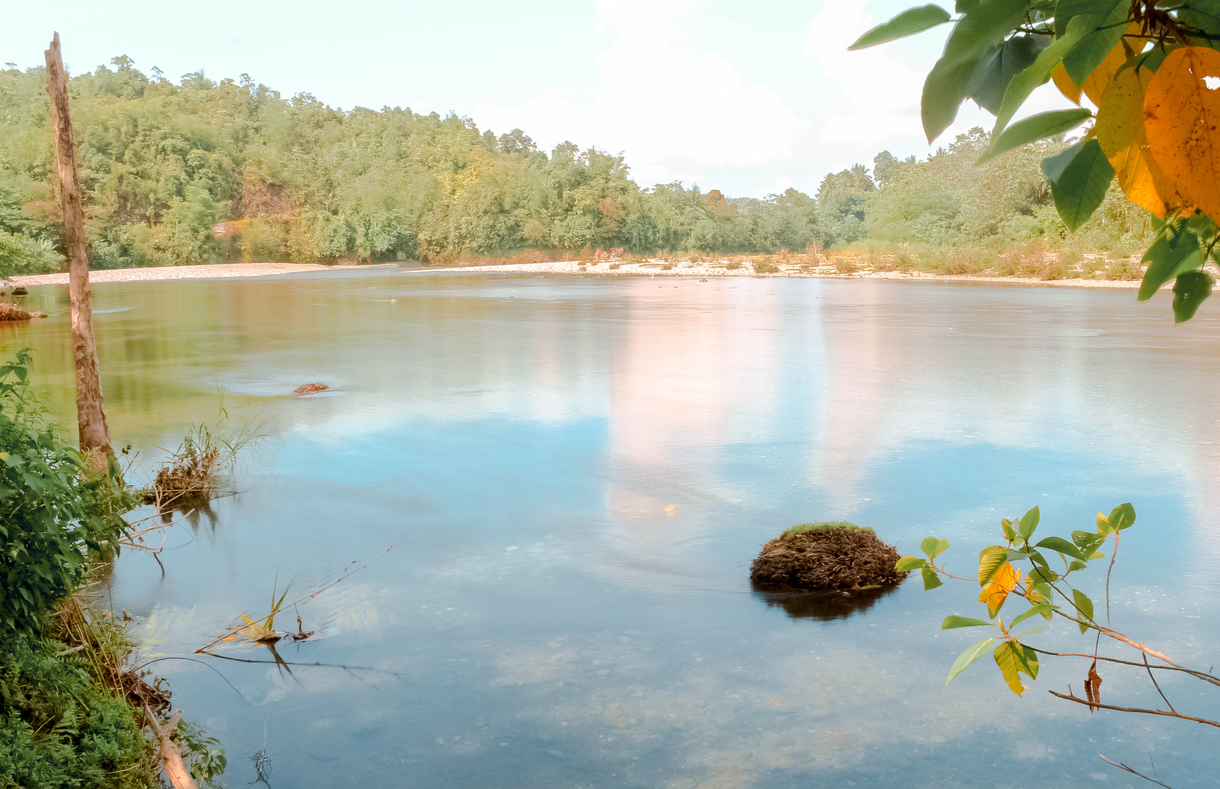 A part of Aklan River seen on Bac-yang, Madalag, Aklan